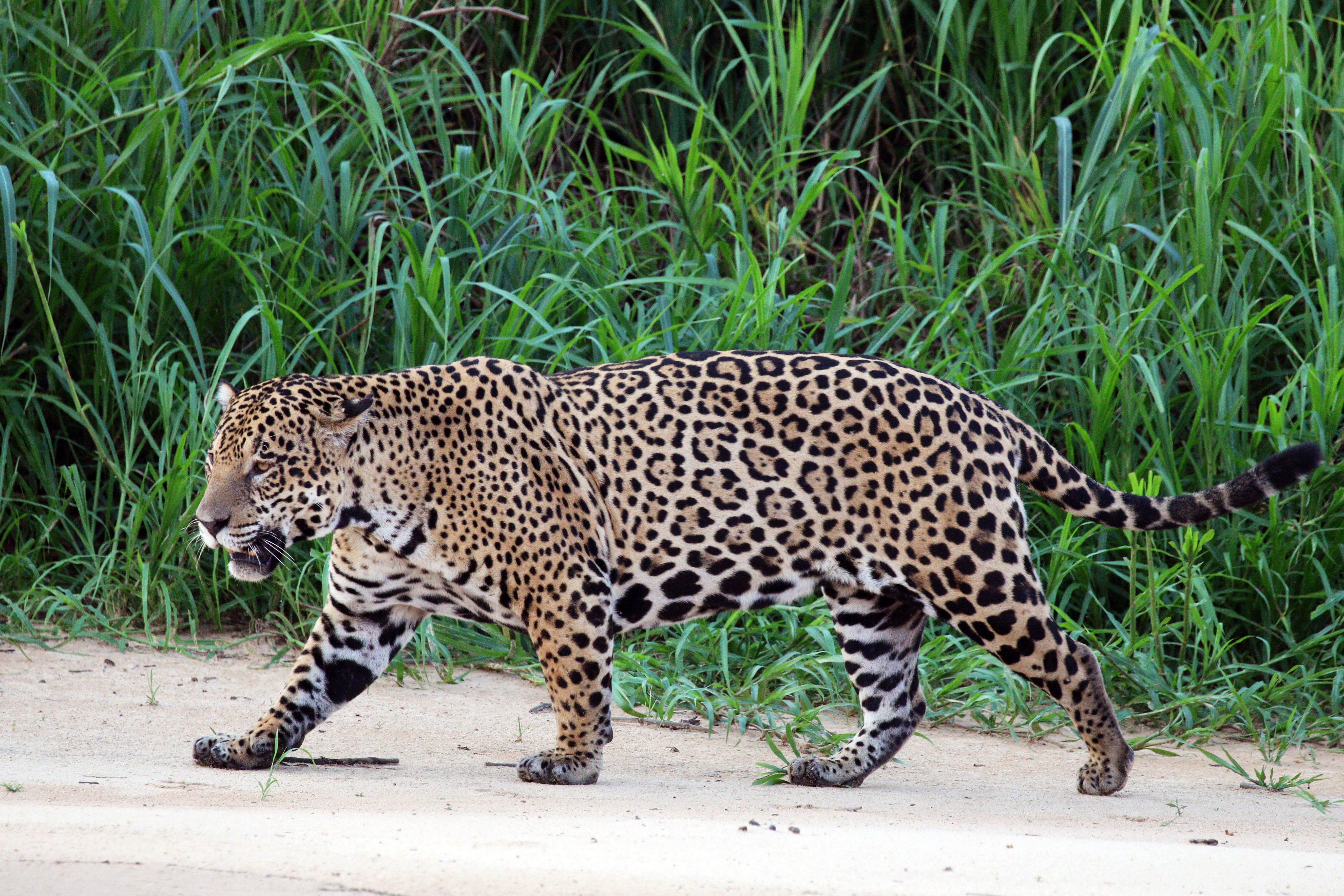 Jaguar (Panthera onca palustris) male, Three Brothers River, the Pantanal, Brazil